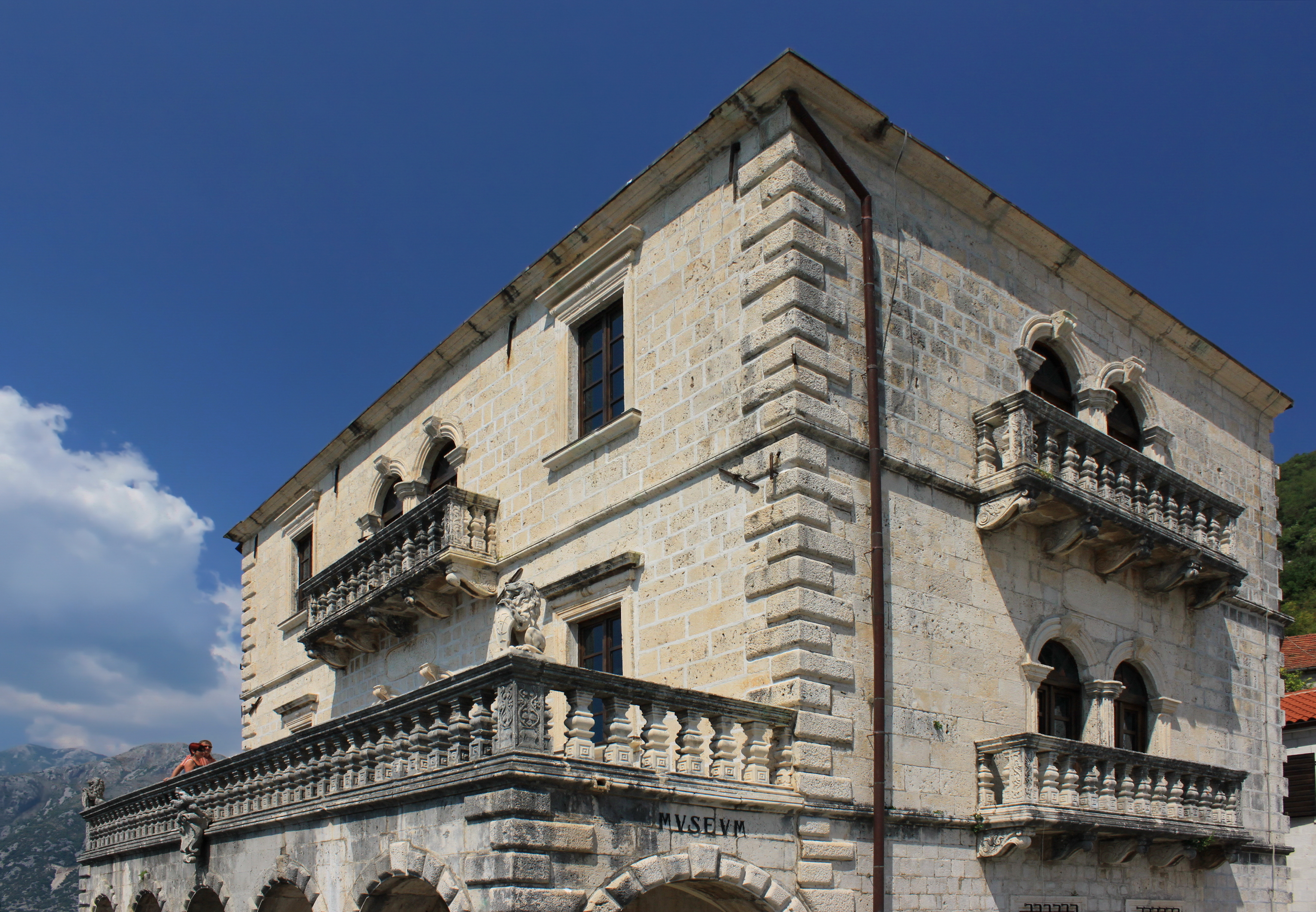 Palace Bujović, now City Museum. Perast, Montenegro.